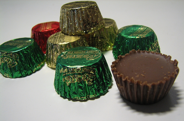 Reese's Peanut Butter Cups miniatures.